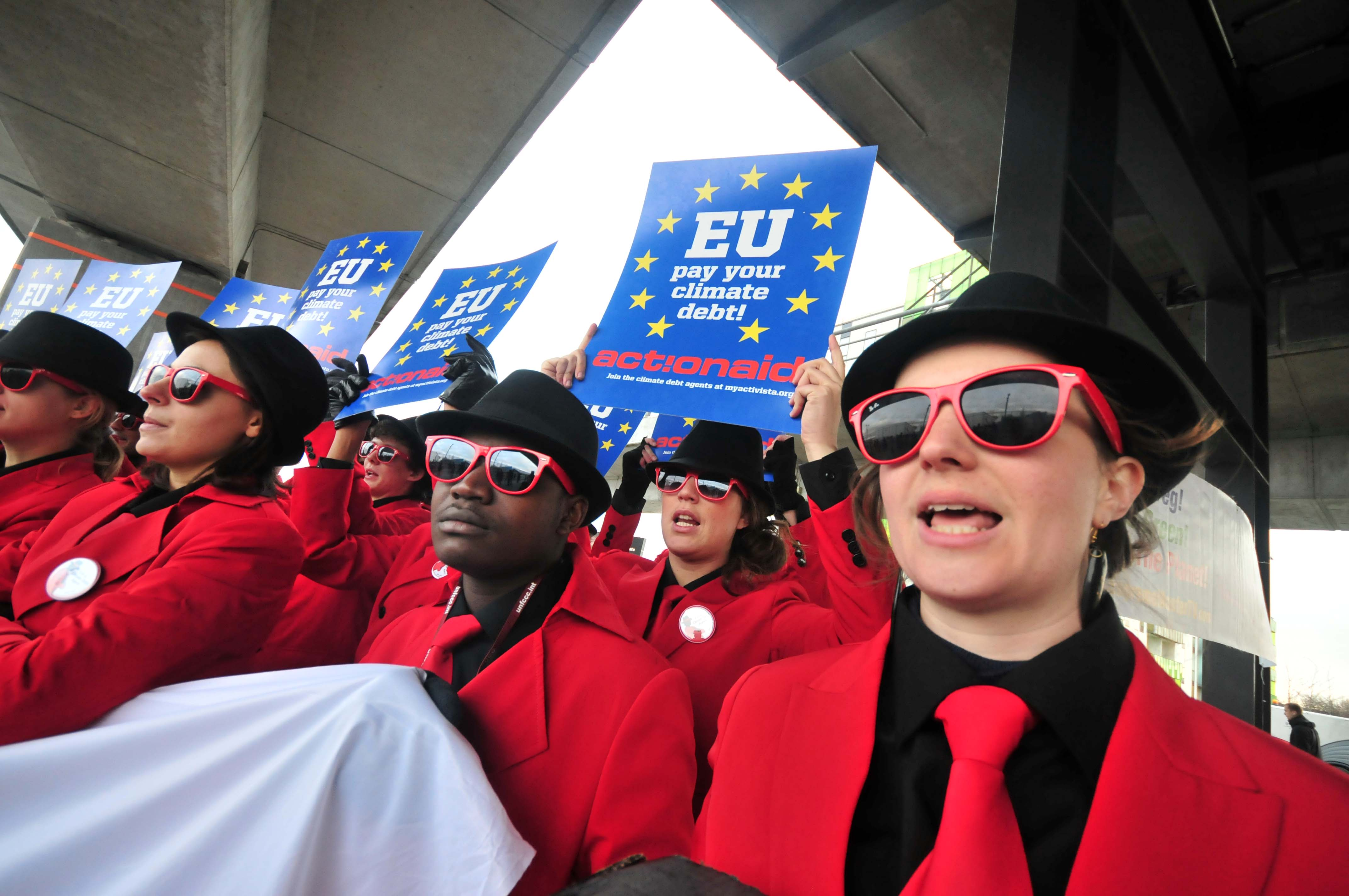 Pic by Neil Palmer (CIAT). Actionaid protestors outside the COP15 United Nations Climate Change conference in Copenhagen, Denmark. Please credit accordingly.